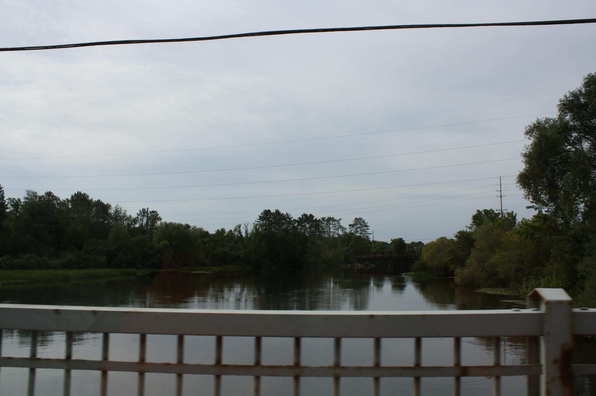 The Flambeau River in downtown Park Falls, Wisconsin.